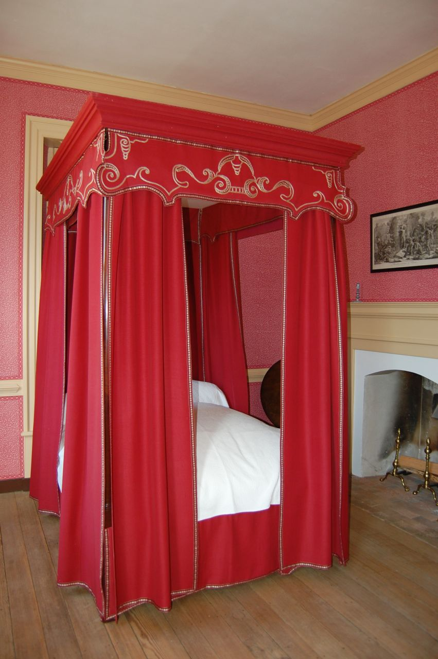 A canopy bed seen in a restoration house in Colonial Williamsburg, Virginia.